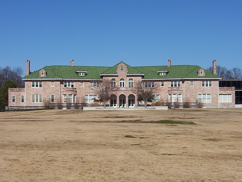 Pink Palace Museum and Planetarium in Memphis, Tennessee. Cropped version of File:Pink Palace Museum and Planetarium Memphis TN.jpg